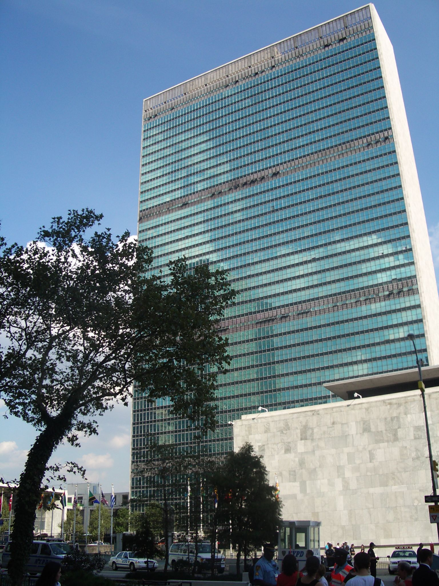 UN Secretariat Building in New York.